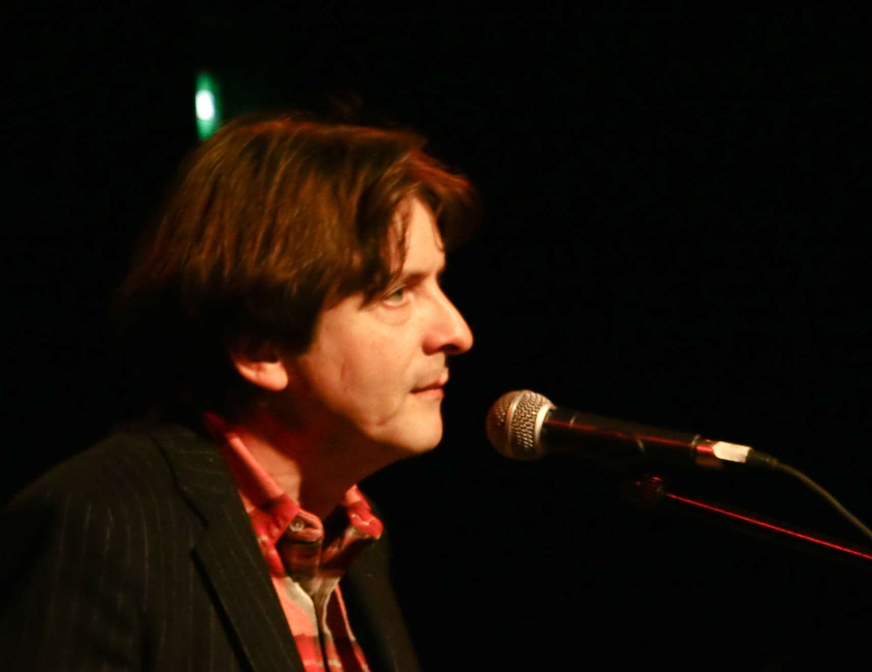 Karl Bruckmaier, German Public Radio, announcing the next band at a concert in Munich